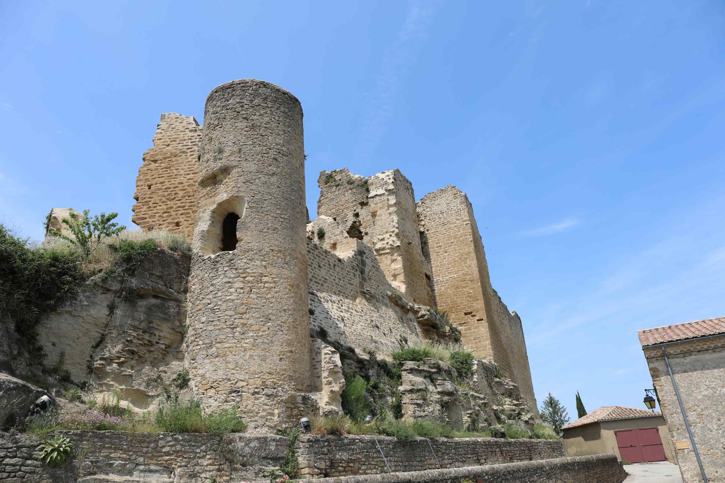 Castle ruins Chabrillan